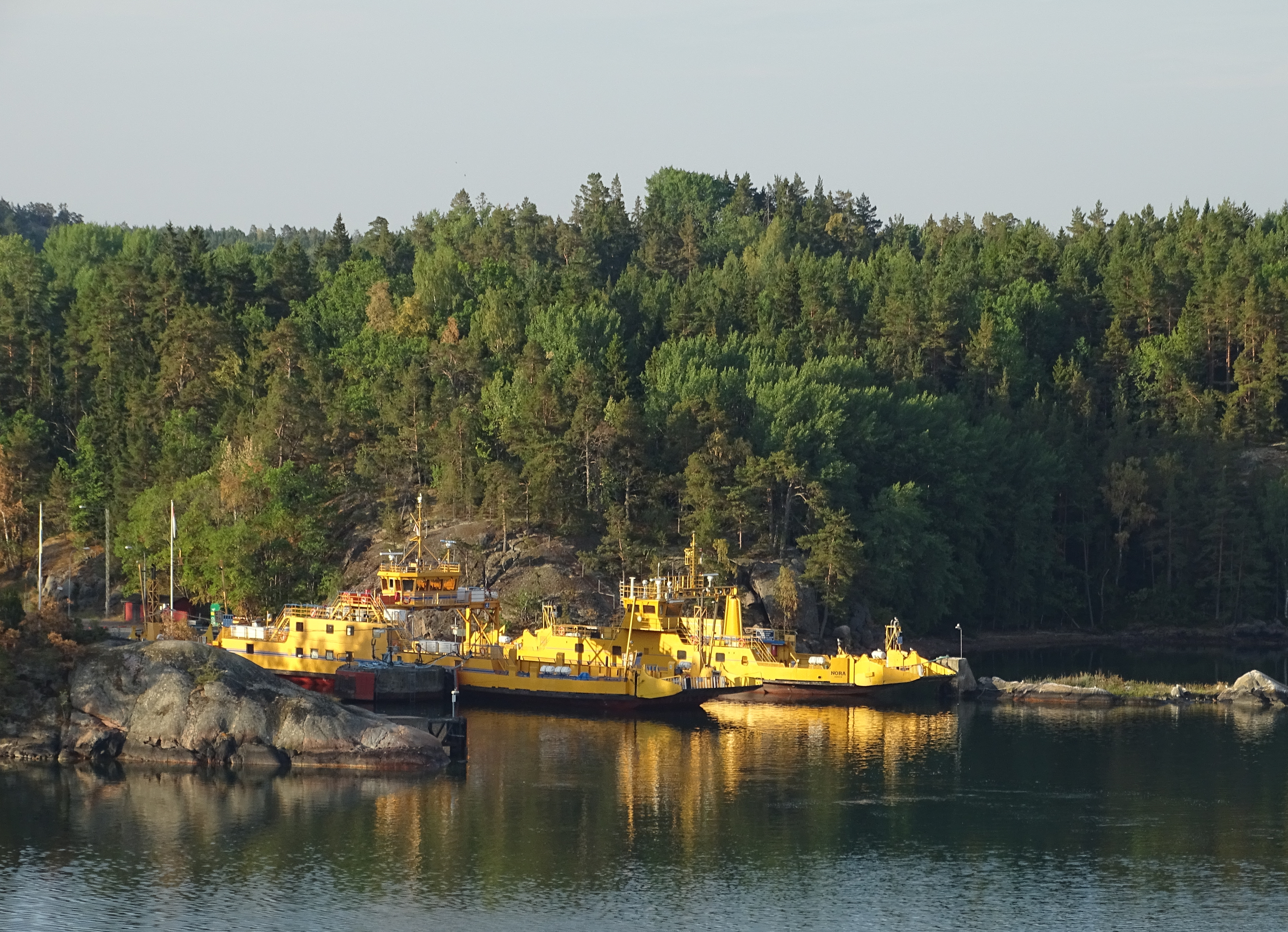 Trafikverket ferry between Östanå and Ljusterö.